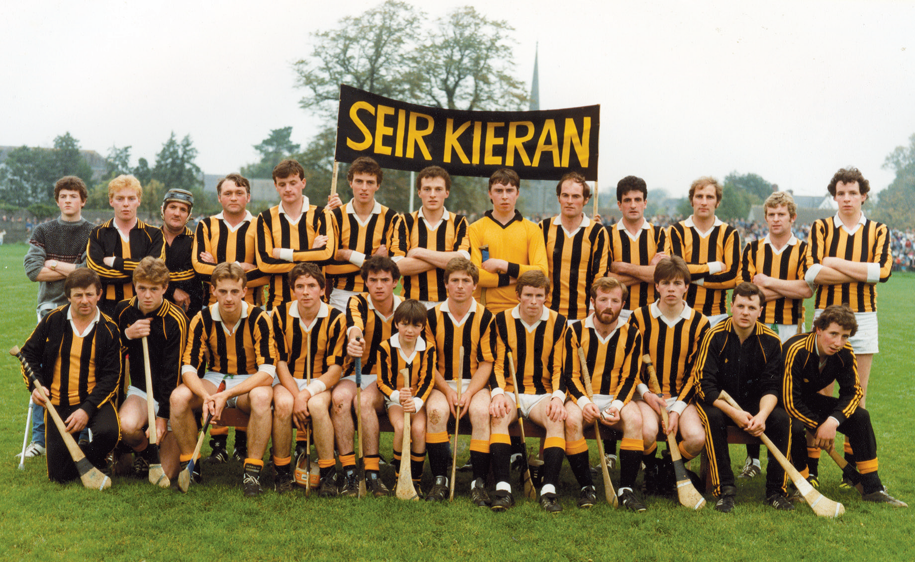 The Seir Kieran panel that reached the Club's first Offaly Senior Hurling Final since 1952, on 13th October 1985.